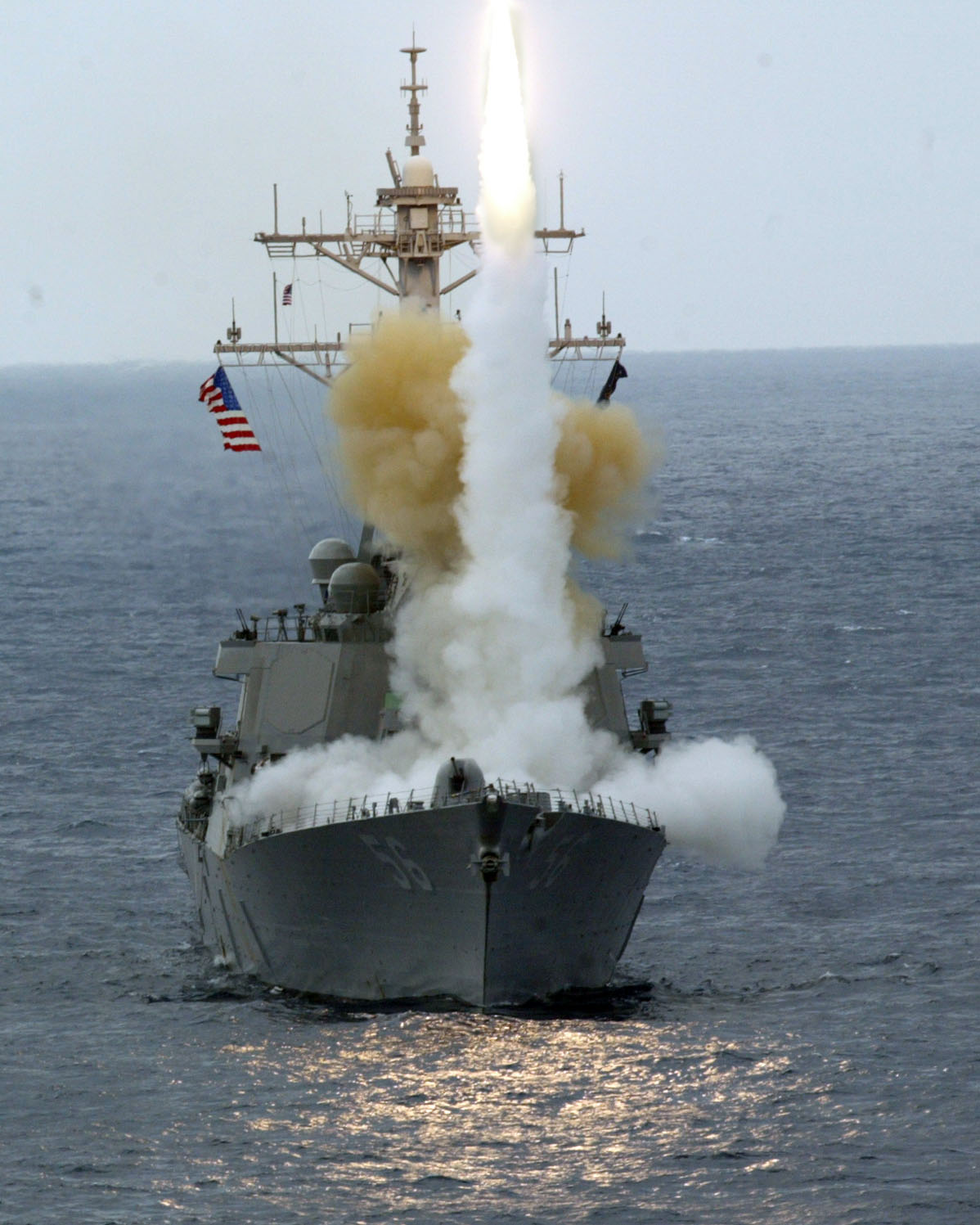 At sea aboard USS John S. McCain (DDG 56) Feb. 6, 2004 – Guided missile destroyer USS John S. McCain (DDG 56) fires a RIM-66 standard surface-to-air missile during a training exercise. The Navy uses the Sea Sparrow version aboard ships as a surface-to-air anti-missile defense weapon. The versatile Sparrow has all-weather, all-altitude operational capability and can attack high-performance aircraft and missiles from any direction. During the exercise, the missile intercepted a remote controlled, GPS-guided test drone. McCain and the amphibious assault ship USS Essex (LHD 2) participated in the missile firing exercise conducted to test the ships defensive capability. U.S. Navy photo by Photographer’s Mate Airman Marvin E. Thompson Jr. (RELEASED)